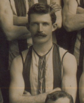 Photograph of Jack Farrell in 1902